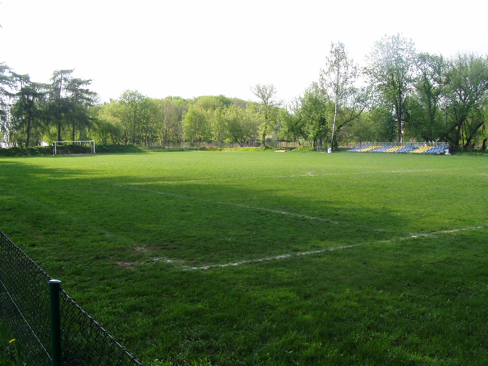 Slawin Lublin football pitch